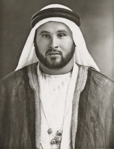 Portrait of Hasan Salama, a Palestinian rebel leader in the 1930s and 1940s